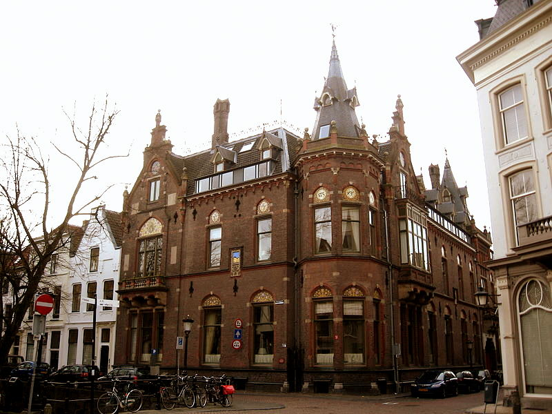 Sociëteit "Sic semper" (P.J. Houtzagers, 1890), Trans 19 te Utrecht